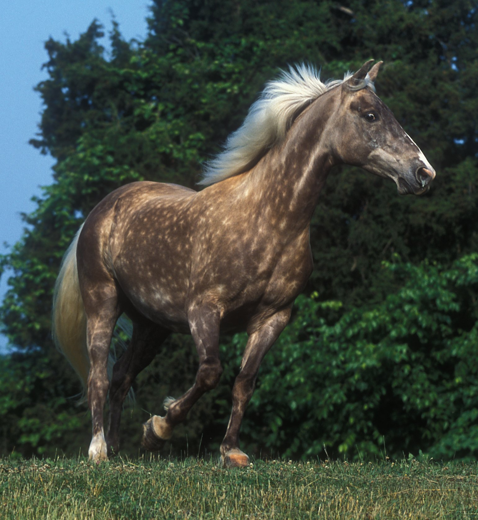 A Silver colored Rocky Mountain Horse. The typical shiny white mane and tail as well as a slightly diluted body color with dapples is seen in this genetically black Silver colored horse. The phenotype is caused by dilution of eumelanin in the hair to white or grey. The dilution is most visible in the long hairs of the mane and tail. The horse has also been diagnosed with MCOA.